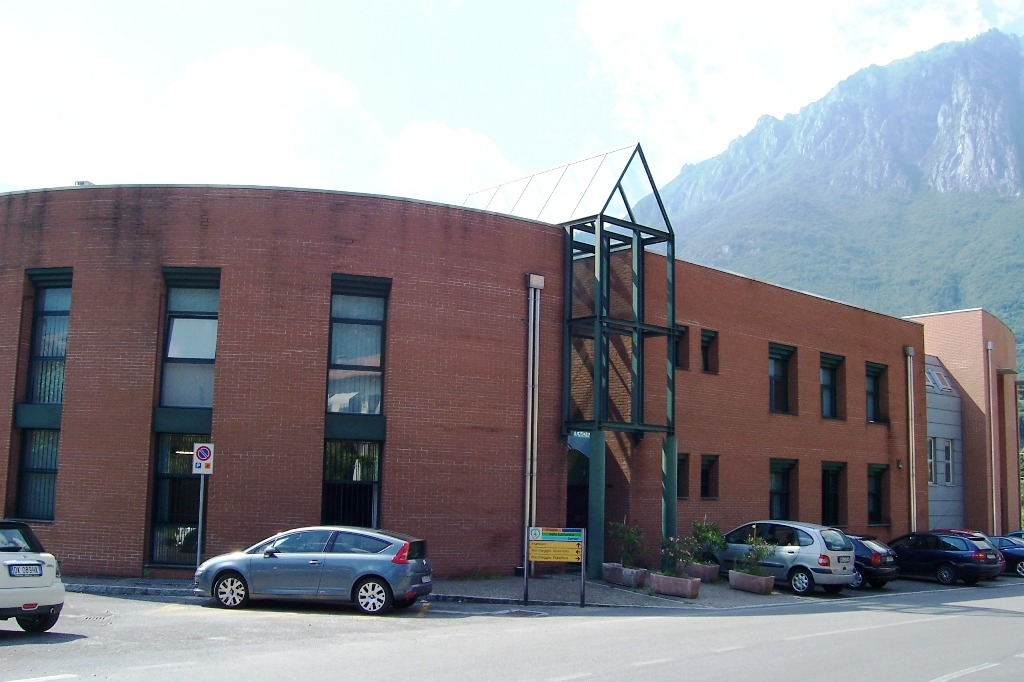 Darfo, Valle Camonica